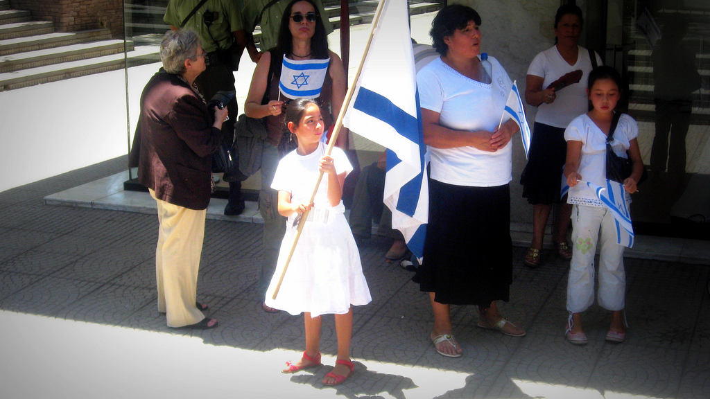 Jewish Girl on Santiago's Manifestation for Israeli Support, January 9th 2009